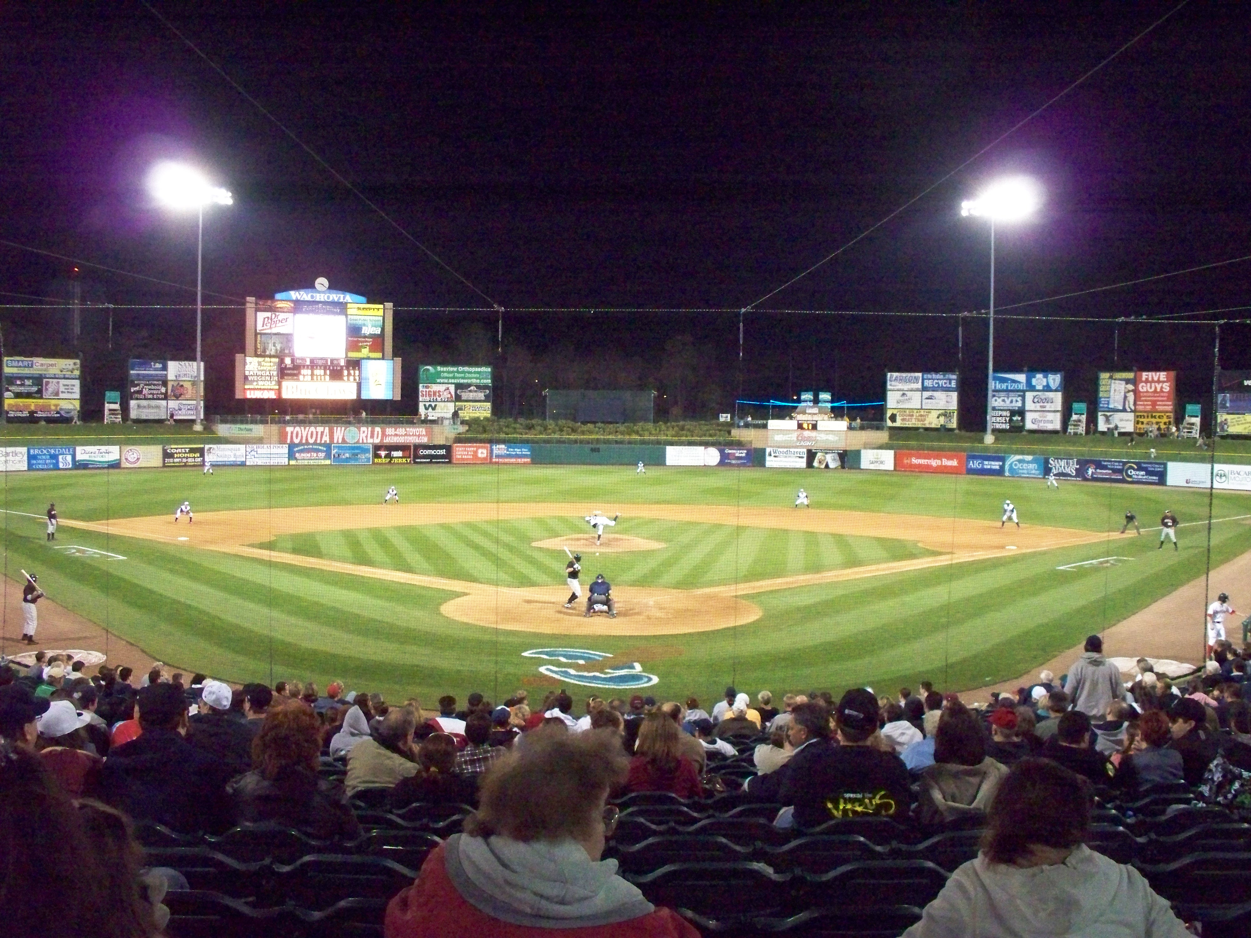 4/19/2008 02:26, 24 April 2008 . . KOknockout920 . . 4,000×3,000 (2.82 MB)